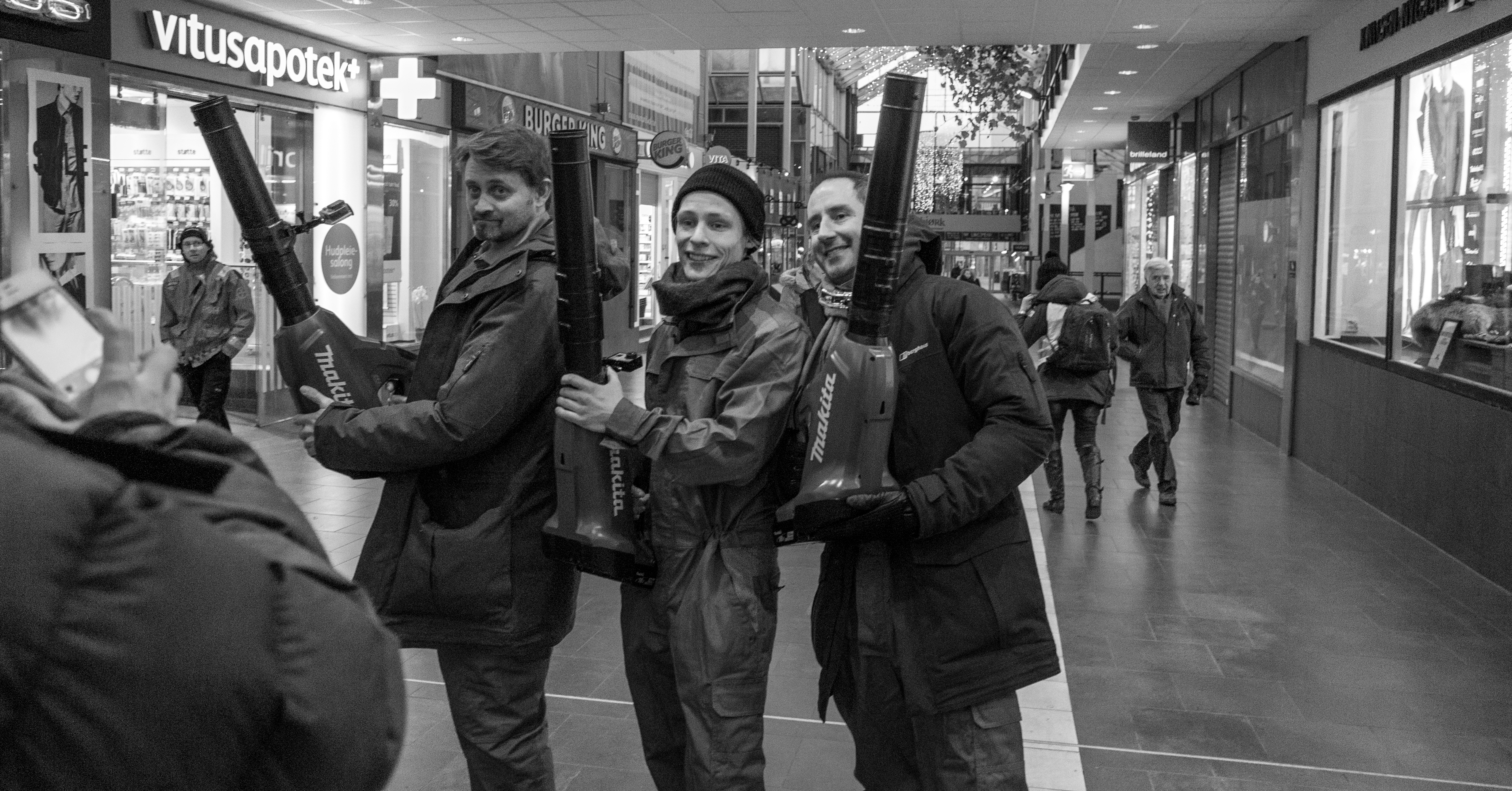 Thomas Numme (left) and Harald Rønneberg (right) in Bodo 2016